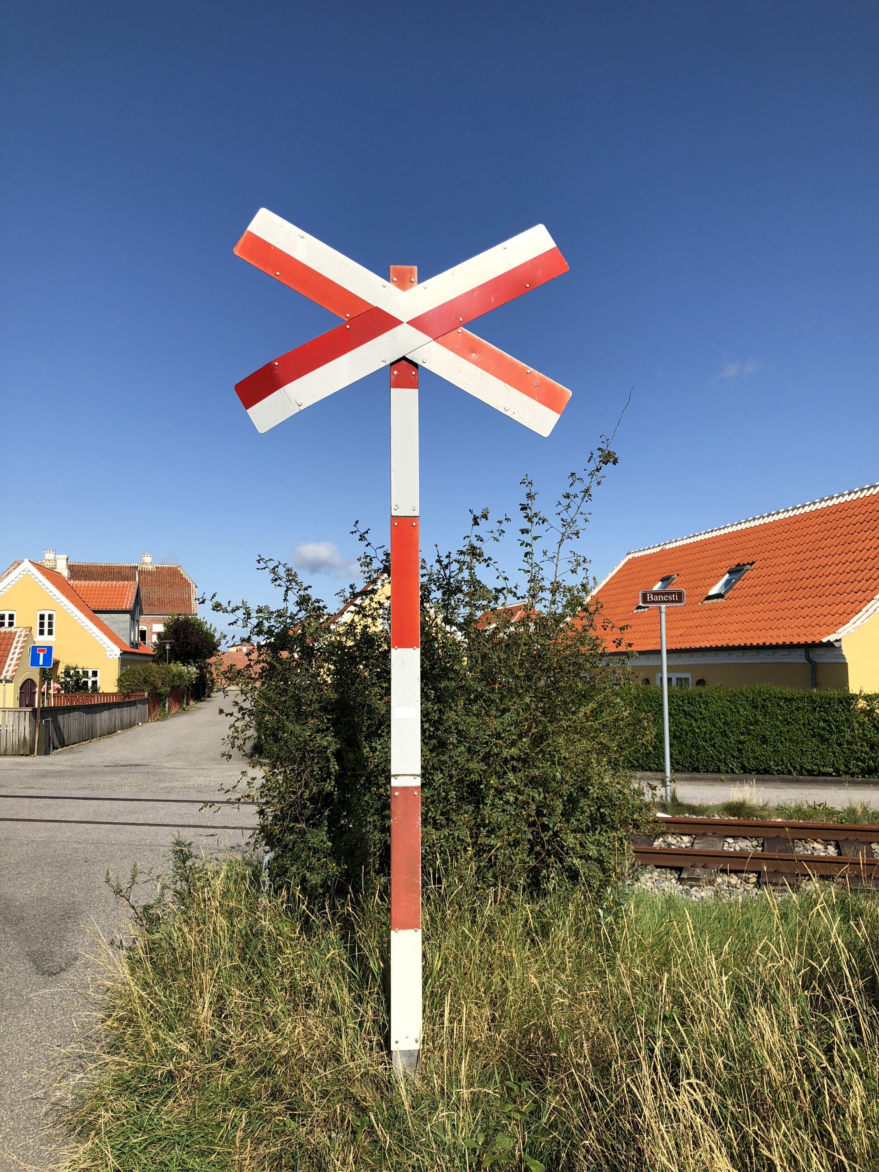 Danish St. Andrews Cross